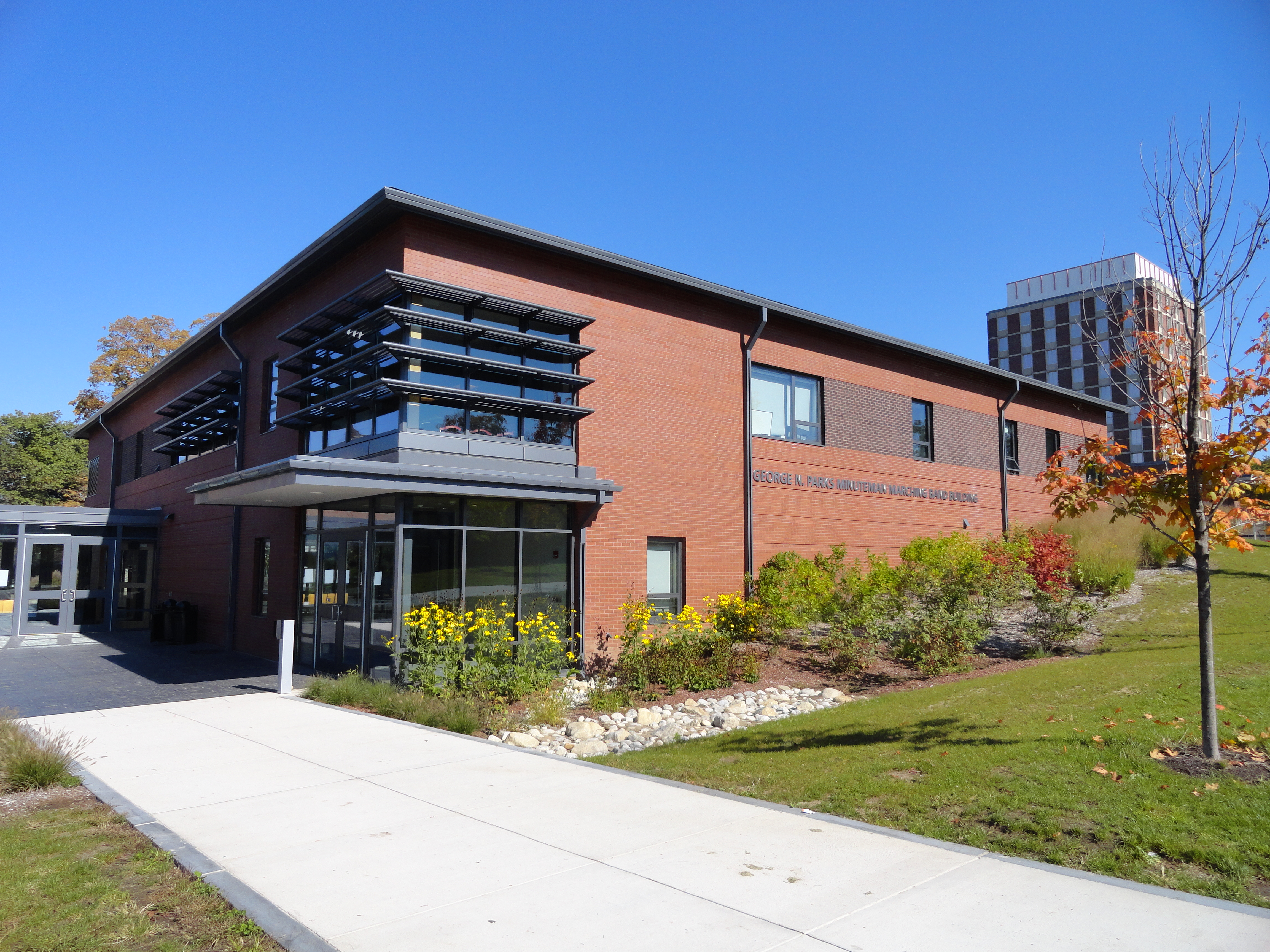 The George N. Parks Minute Marching Band Building at the University of Massachusetts Amherst.